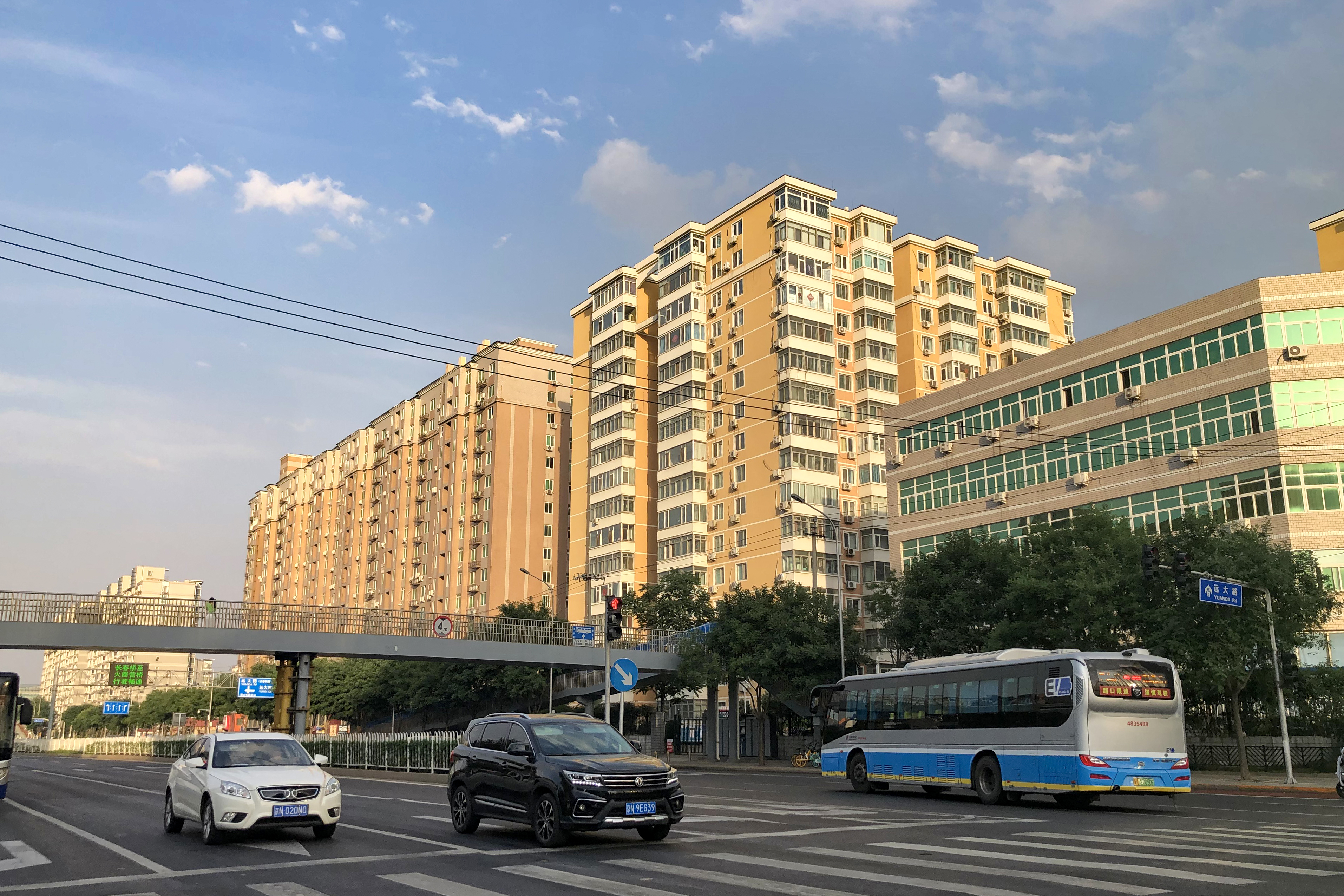 Actually in Shuguang Subdistrict.